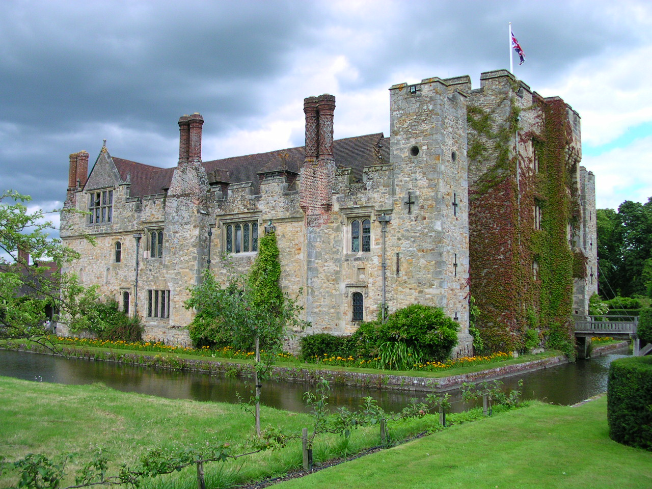 Hever Castle, Kent, England.